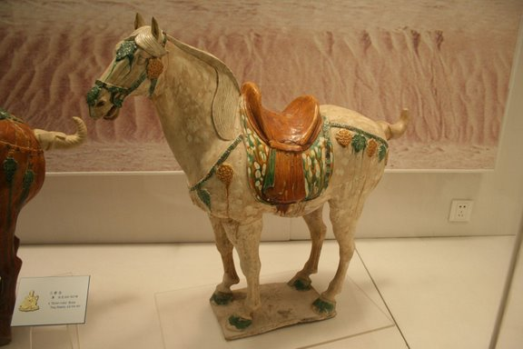 A Chinese Tang Dynasty (618-907 AD) sancai-glazed pottery horse statue.